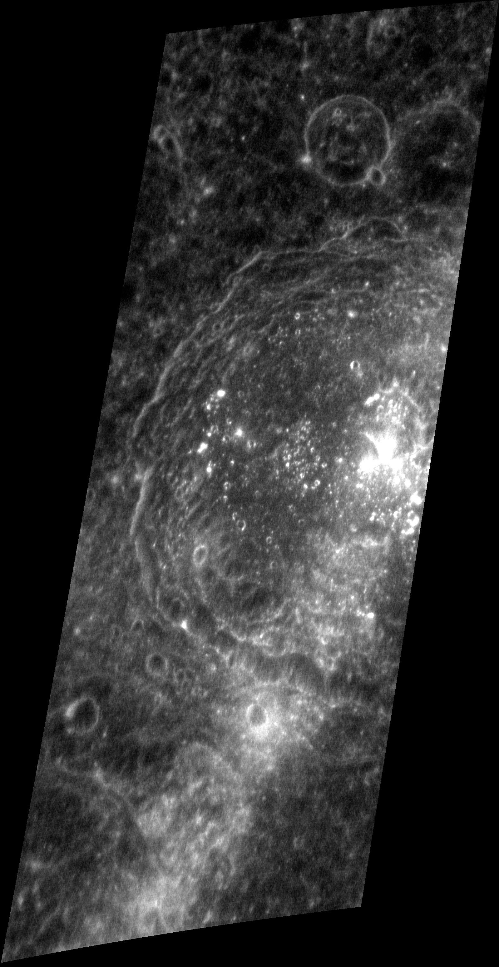 Date acquired: April 05, 2011 Image Mission Elapsed Time (MET): 210460149 Image ID: 91786 Instrument: Narrow Angle Camera (NAC) of the Mercury Dual Imaging System (MDIS) Center Latitude: 10.6° Center Longitude: 338.1° E Resolution: 60 meters/pixel Scale: The image is about 60 km (37 mi.) wide. Of Interest: This oblique-view image was obtained as a special targeted observation of the large crater Aśvaghosa. This crater, 90 km (56 mi.) in diameter, has bright central peaks. Their high reflectance appears to have been enhanced by the crater ray that crosses the area, having originated either at Kuiper to the southwest, or Hokusai to the northeast. This image was acquired as a high-resolution targeted observation. Targeted observations are images of small areas on Mercury's surface at resolutions much higher than the 250-meter/pixel (820 feet/pixel) morphology base map or the 1-kilometer/pixel (0.6 miles/pixel) color base map. It is not possible to cover all of Mercury's surface at this high resolution during MESSENGER's one-year mission, but several areas of high scientific interest are generally imaged in this mode each week.